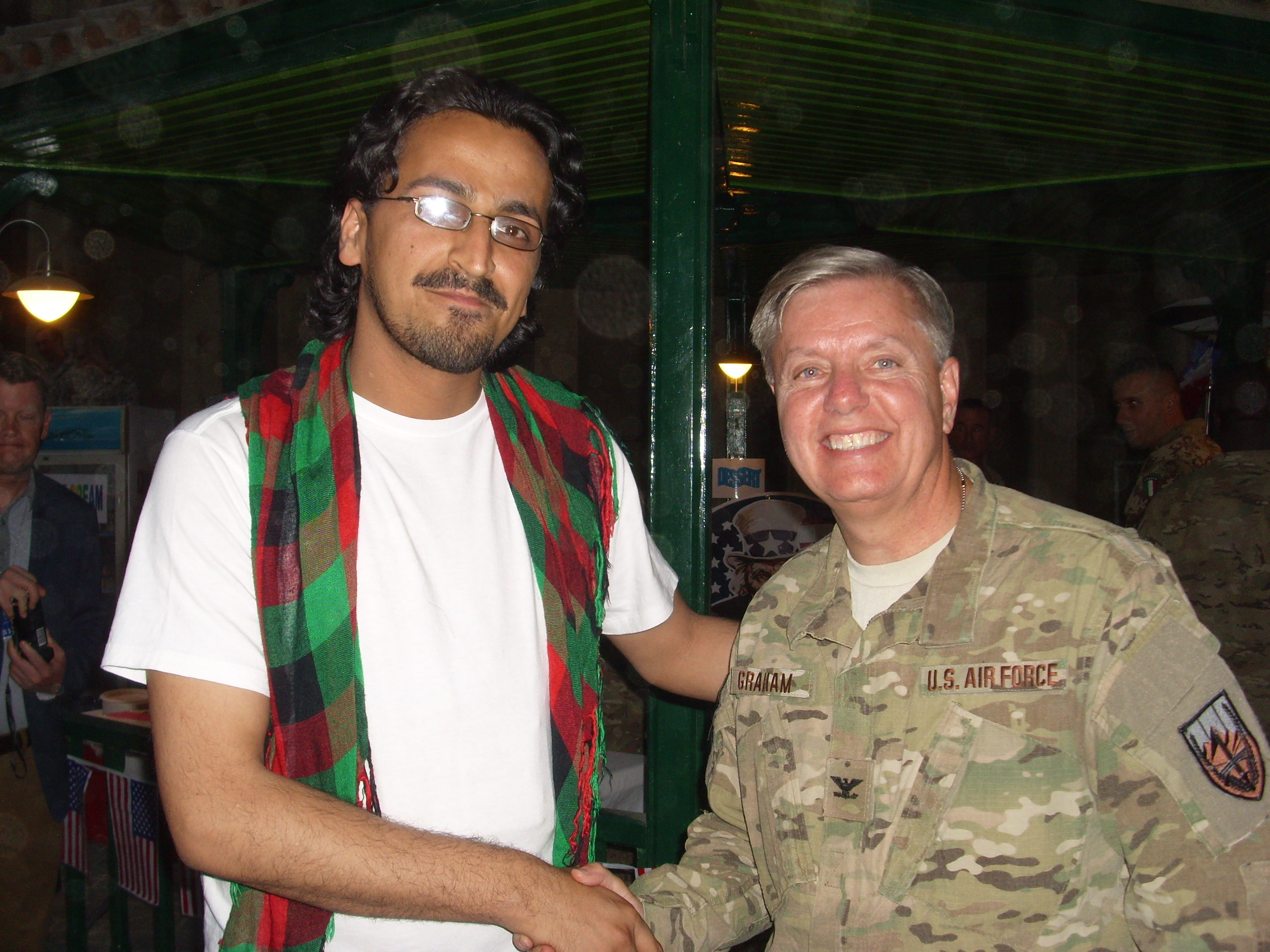 Dr. Mohammad Shafiq Hamdam and Senior U.S Senator Lindsey Graham